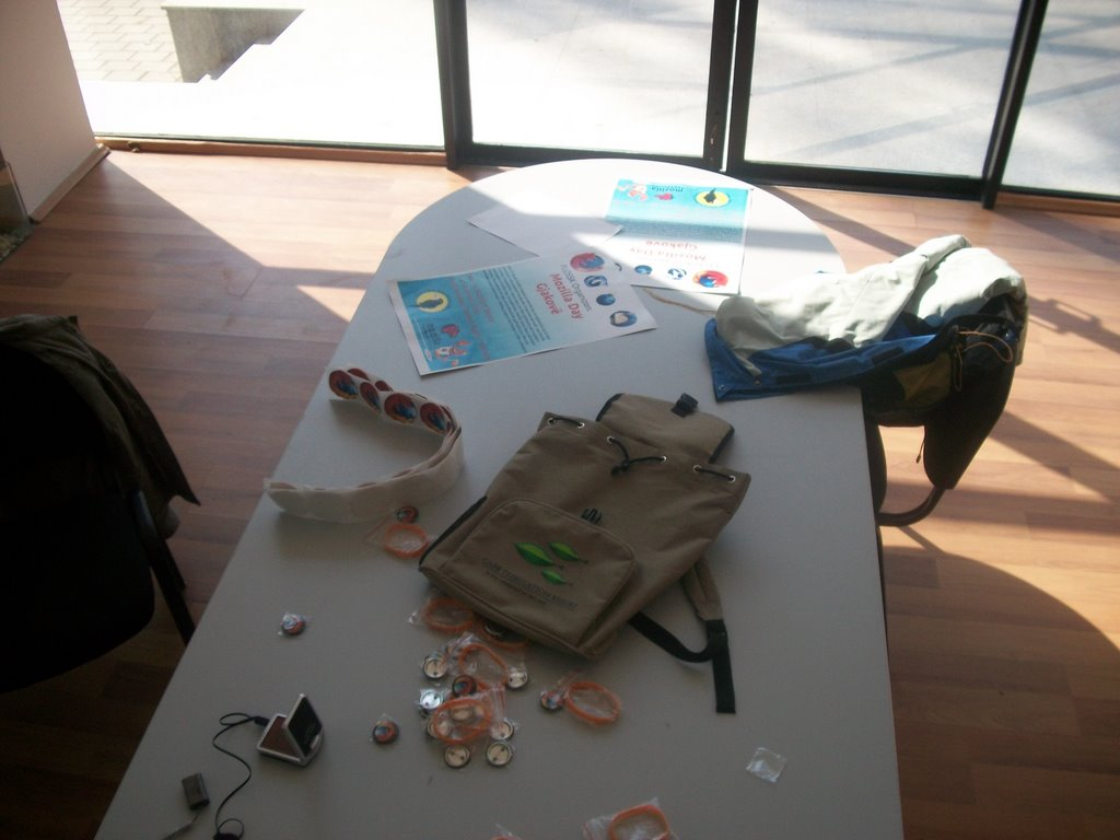 Photos from Heroid Shehu for Wikimedia Commons. Original Filename "Heroid_Shehu/FLOSSK Gjakova/100_6096.JPG"